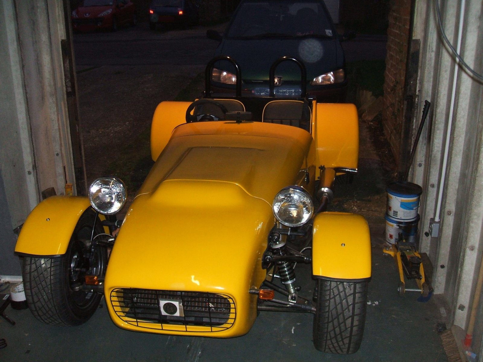 A Tiger Avon kit car